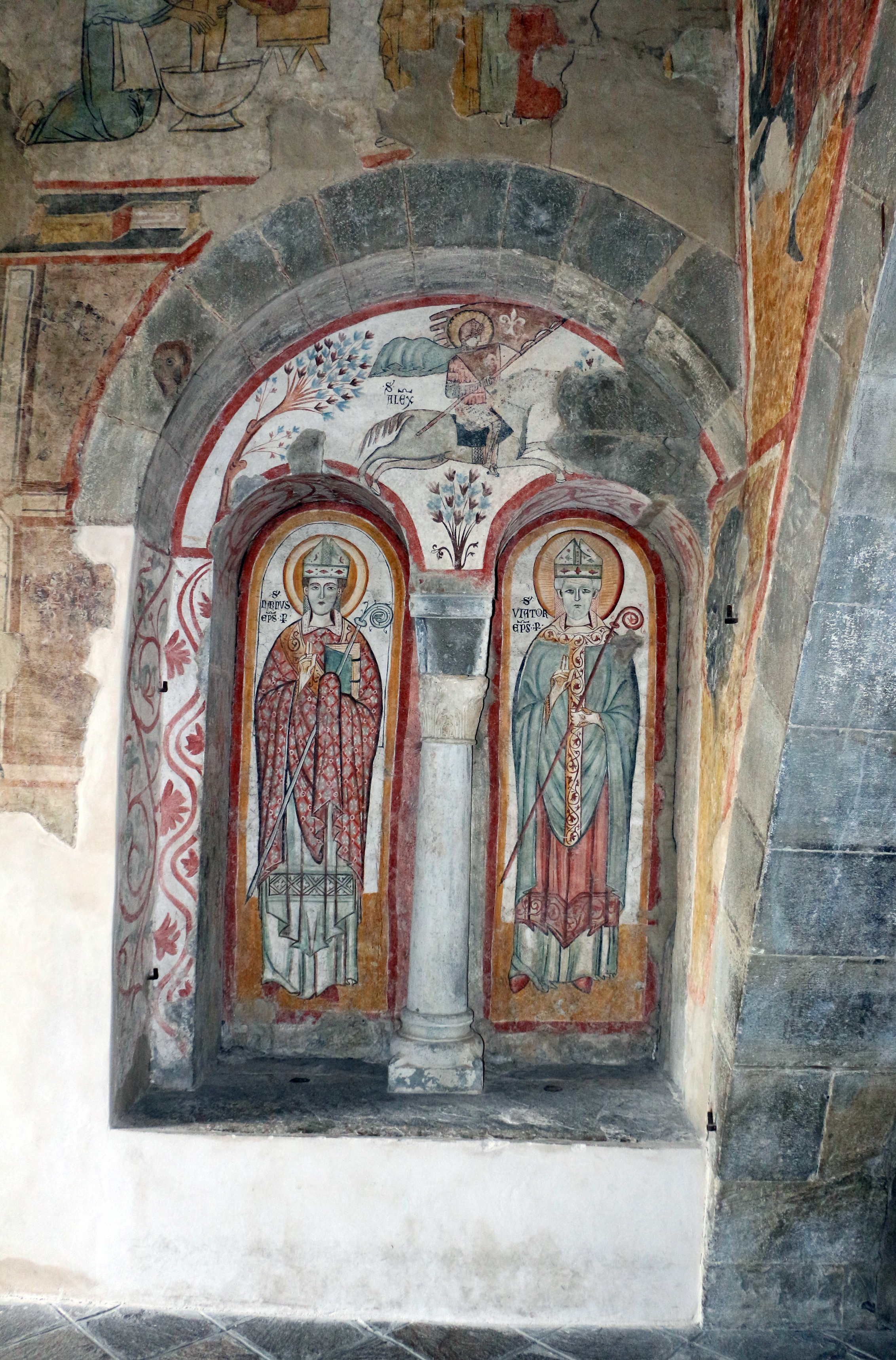 Palazzo della Curia Vescovile (Bergamo)